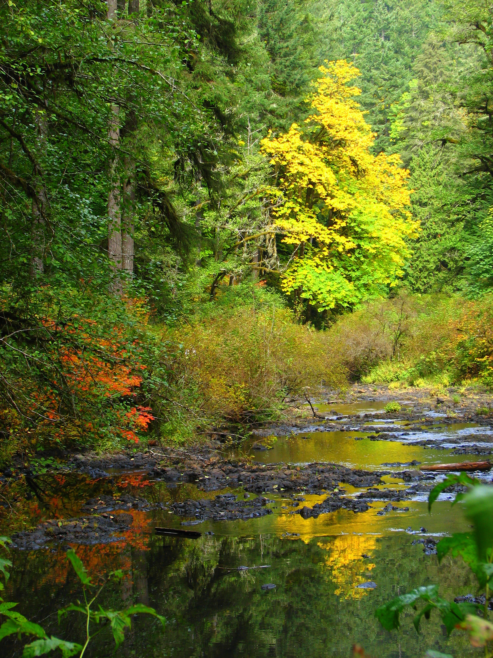 Autumn colors reflected in Silver Creek at Silver Falls State Park, Oregon, United States.